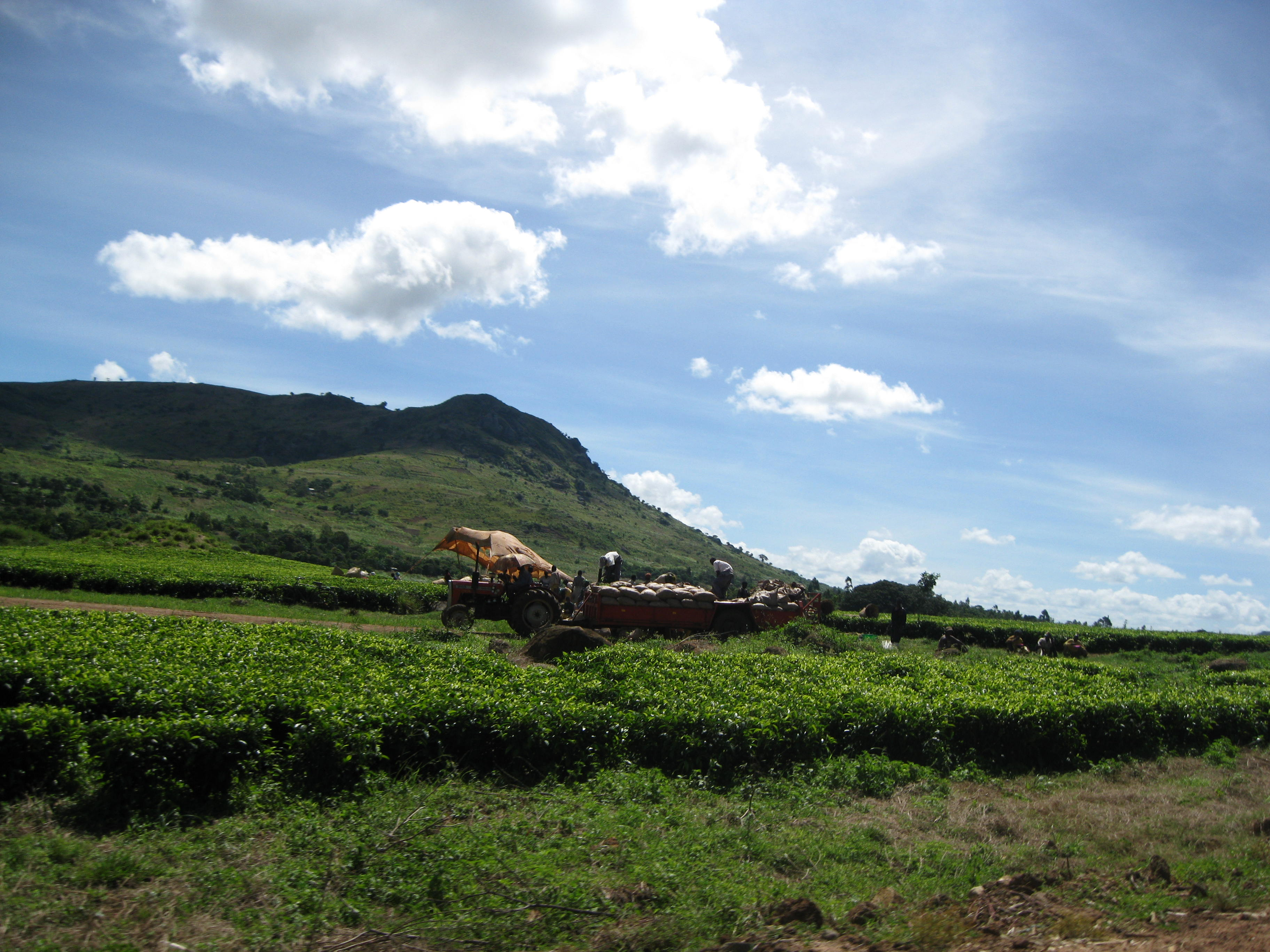 Tea plantatio and harvest near Mulanje Plateau, Malawi